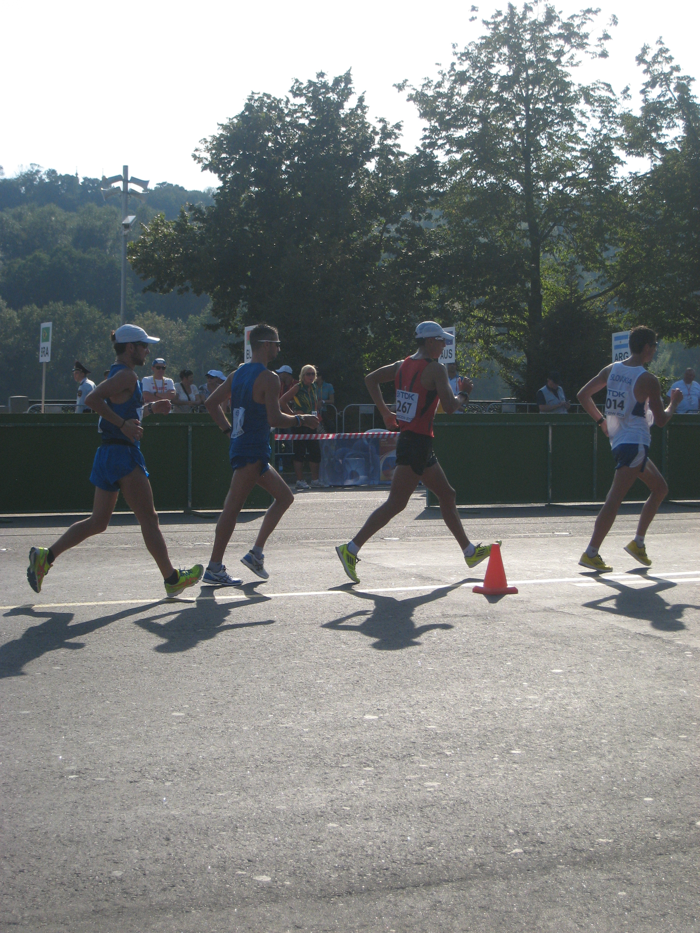 2013 IAAF World Champiomships in Moscow. 20 km walk men. Right: Anton Kuchmin (SVK) and Yerko Araya (CHI)